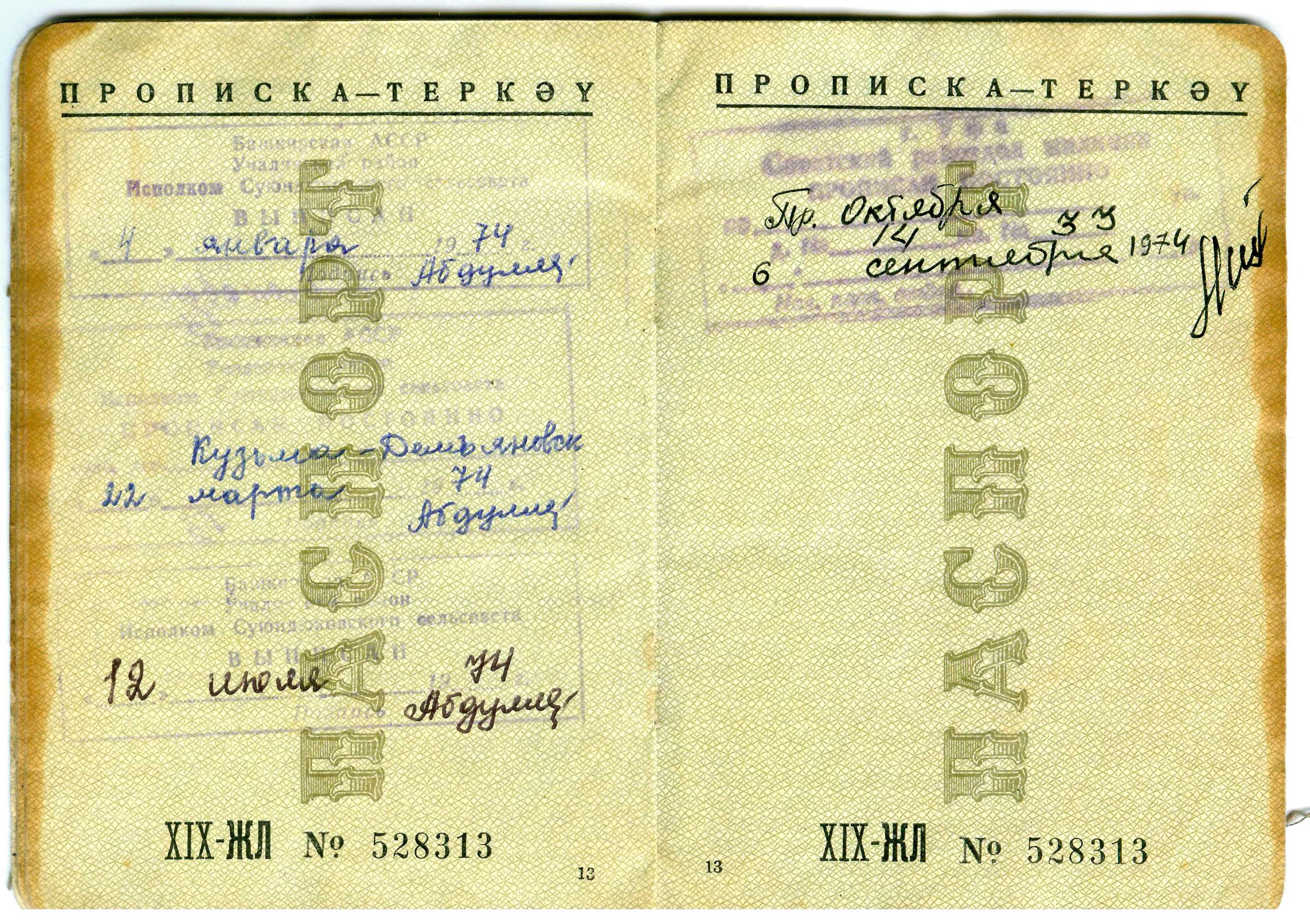 Residence permit in Passport of USSR in russian and bashkir languages, 1959 years